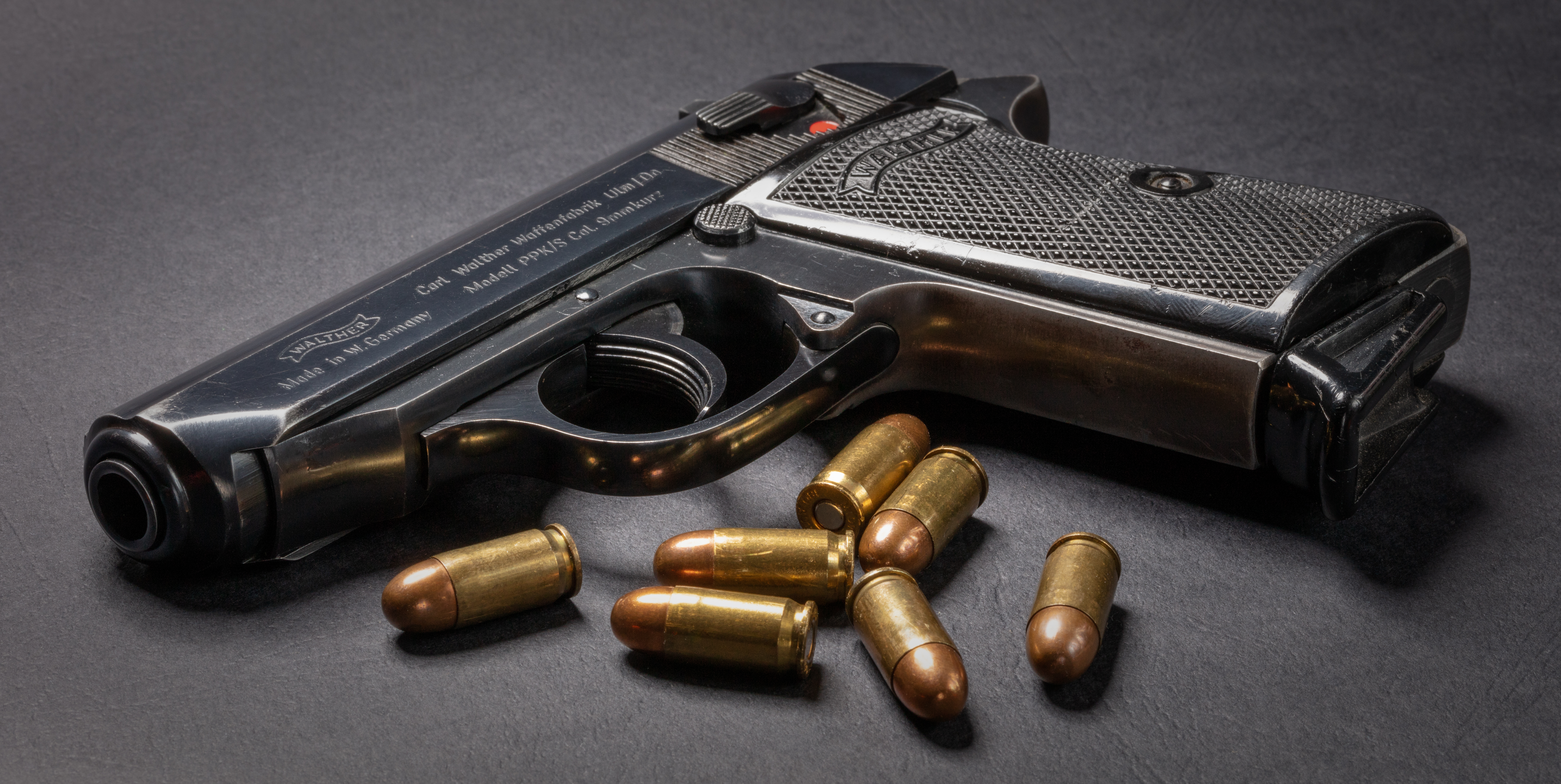 Classic Walther PPK/S, .380 cal.